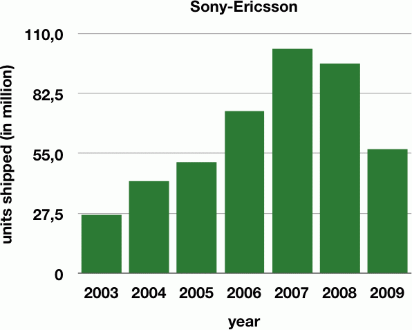 annual number of units (handsets) shipped by Sony Erisson from 2003 through 2009